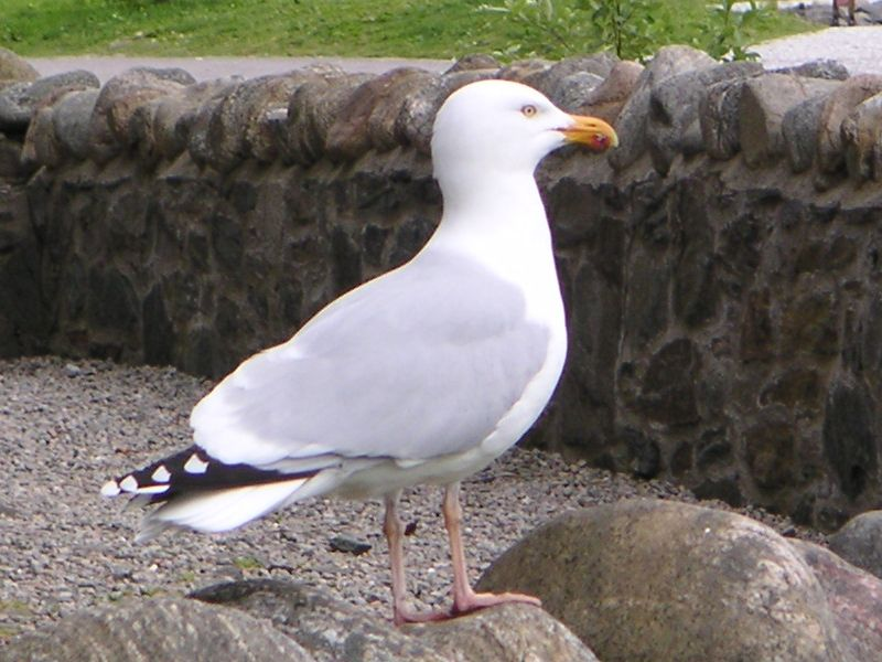 Herring Gull, Larus argentatus Author: Wojsyl, 2004